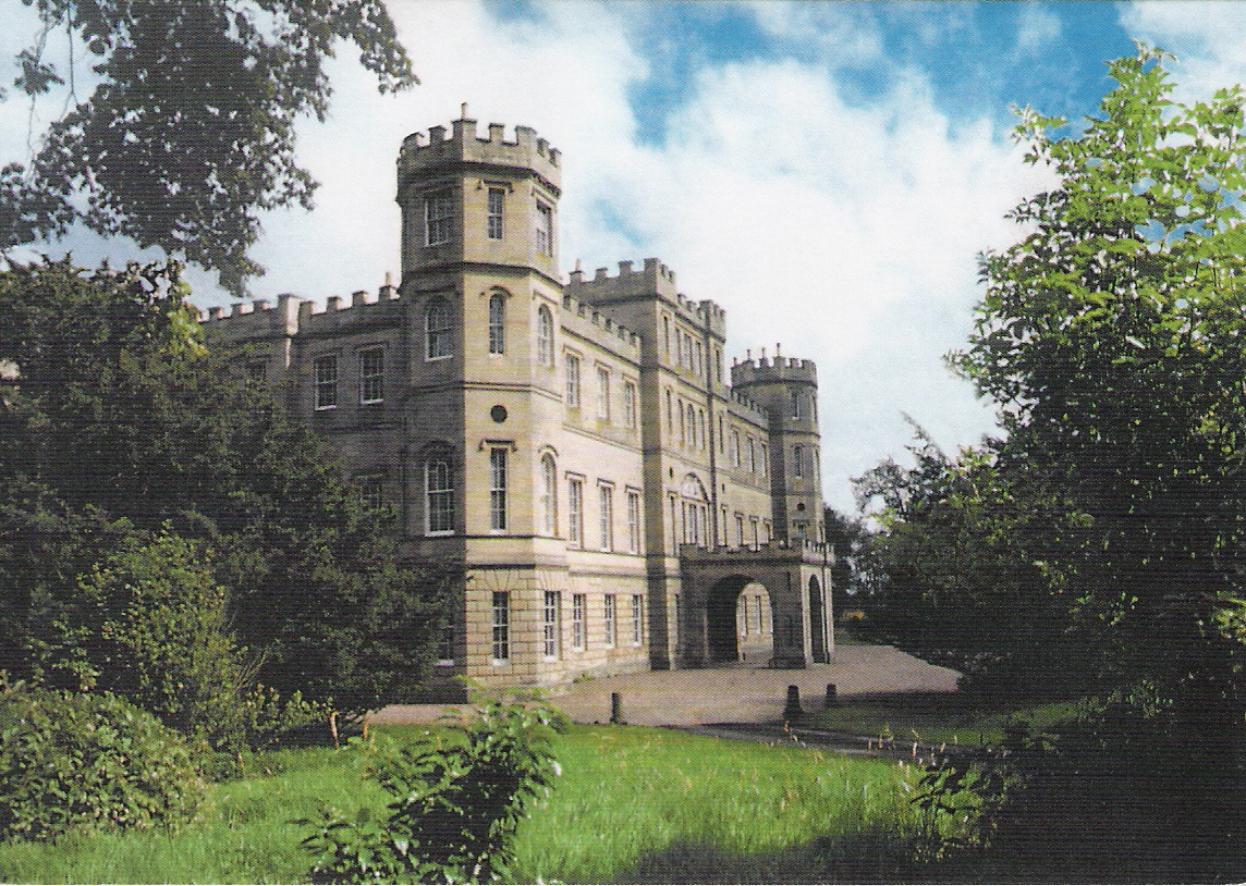 Ordinary photo. No copyright.